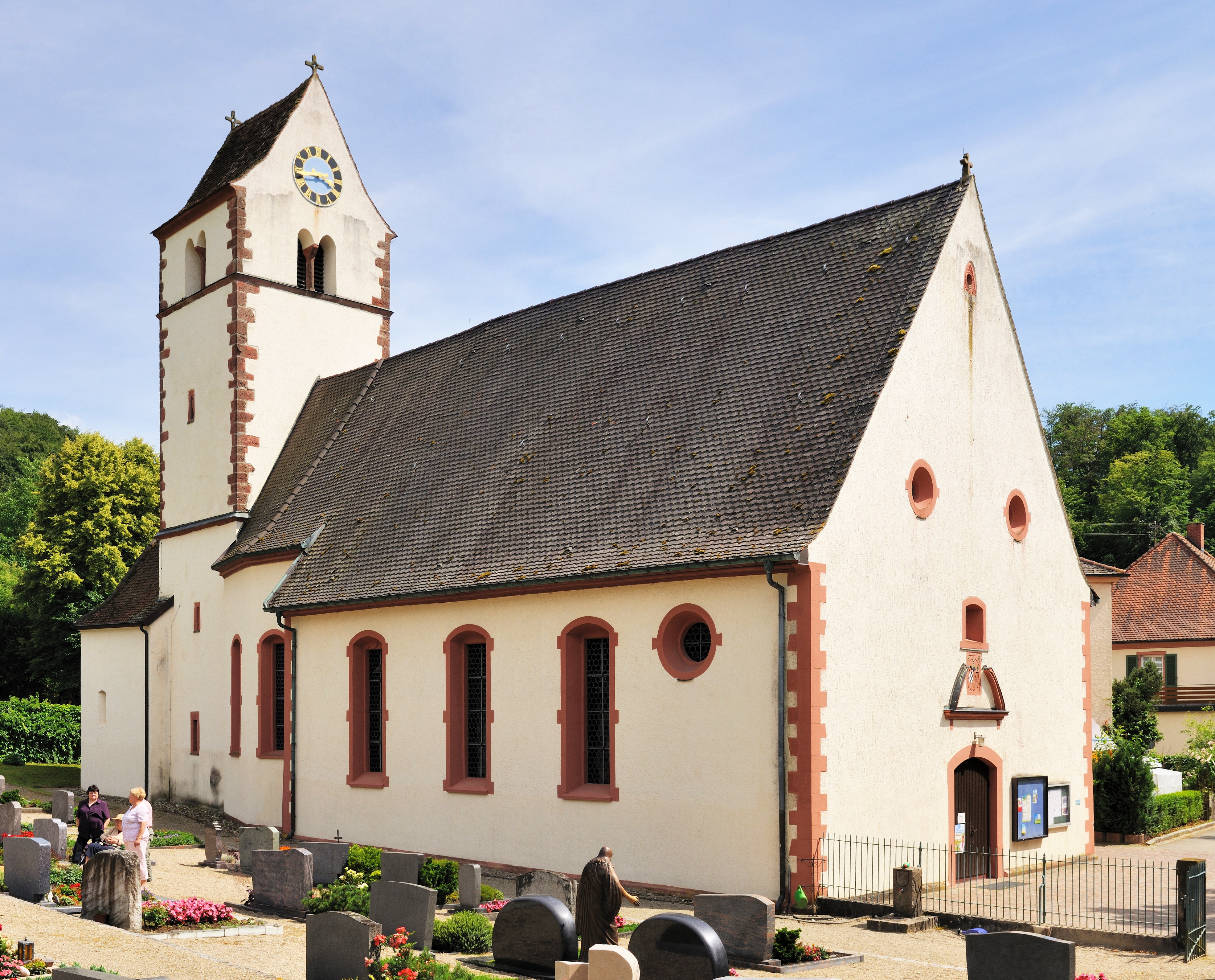 Liel: Saint Vinzenz Church